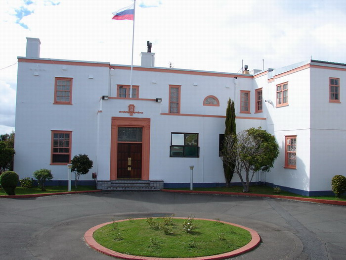 Embassy of Russia in Wellington